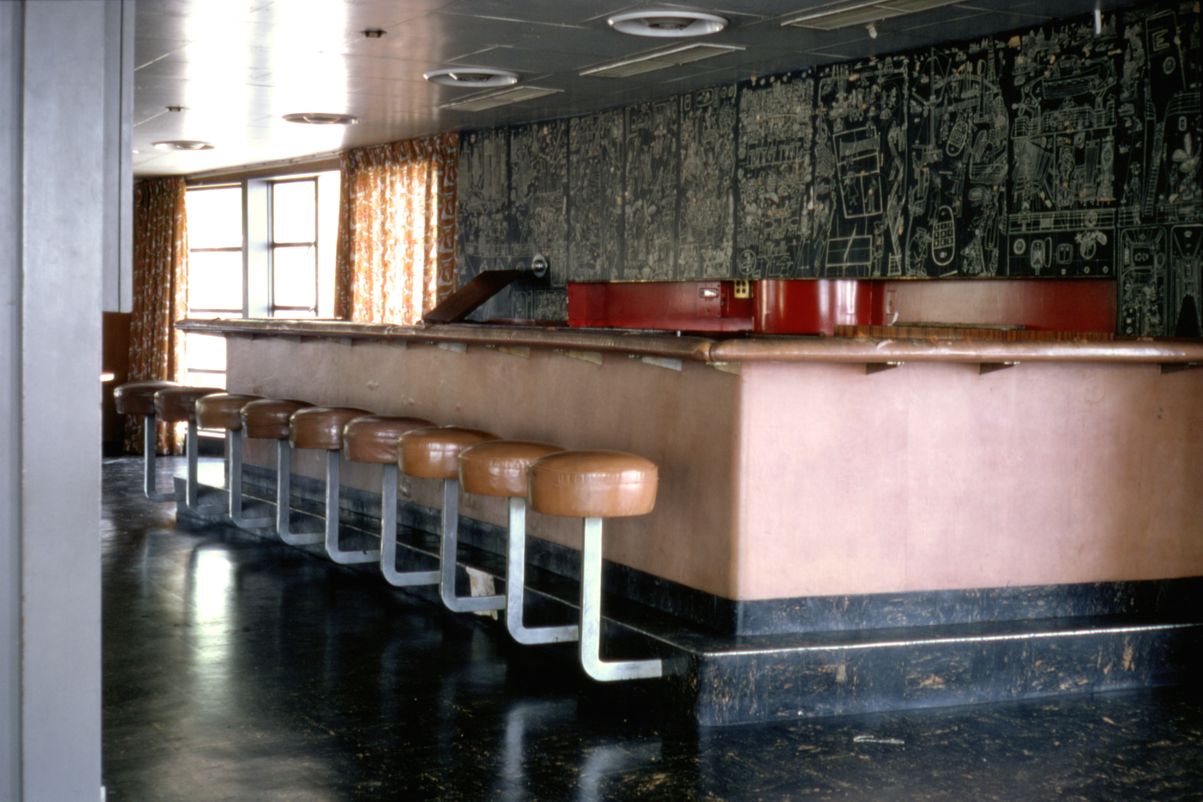 View of SS Stevens promenade deck aft lounge, bar area SS Stevens was formerly cruise liner SS Exochorda of the New "4 Aces" fleet of American Export Lines Large 11-panel mural by New Yorker magazine illustrator Saul Steinberg is shown on the wall behind the bar. A nearly identical mural was recovered from sister ship USTS Texas Clipper before she was scrapped. The image was scanned from the original Kodachrome 25 (Daylight) 35mm film image. For other photos, see SS Stevens Gallery